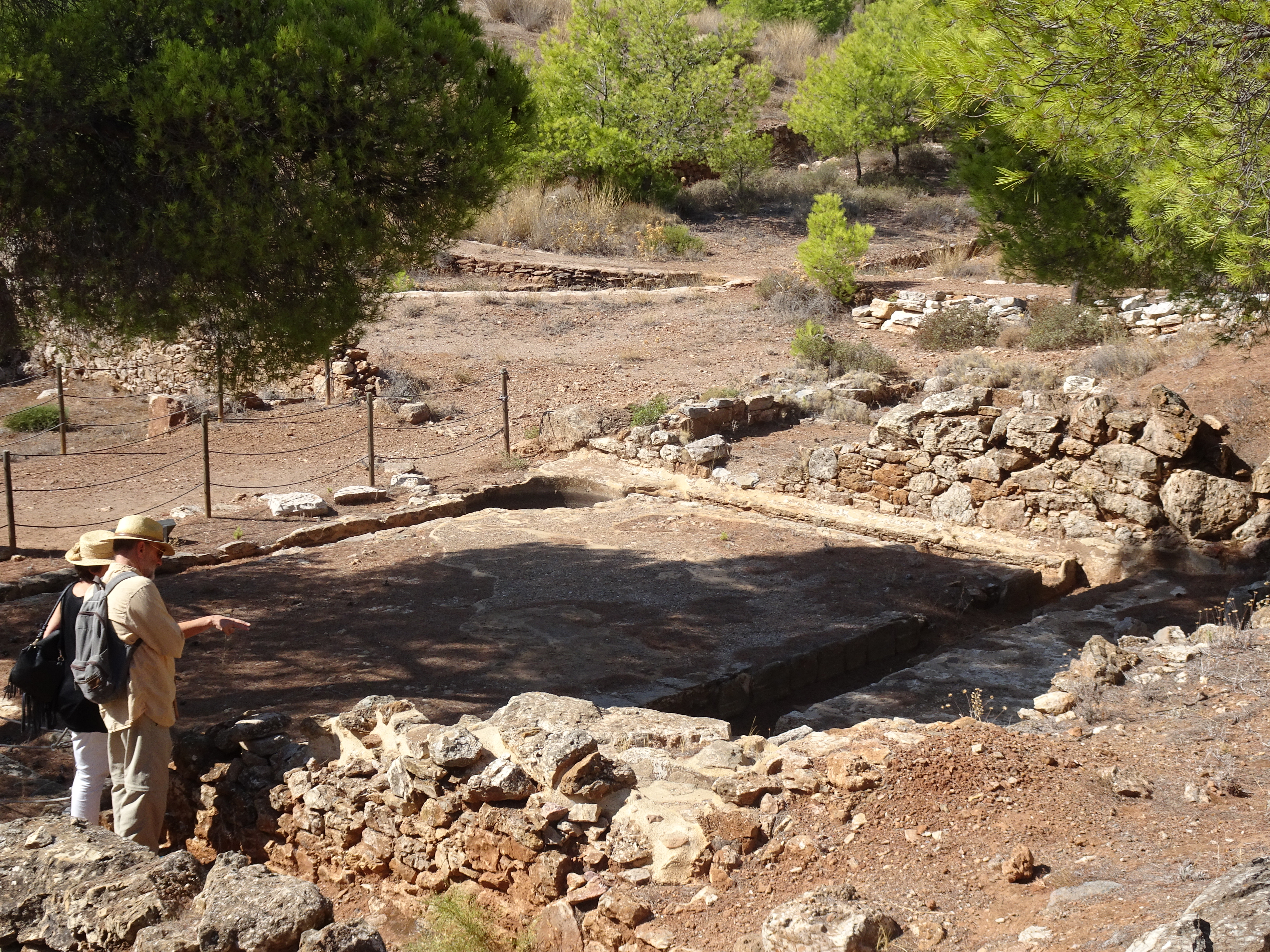 Level Washery for enrichemnet of argentiferous lead ore in Soureza Lavrion Greece